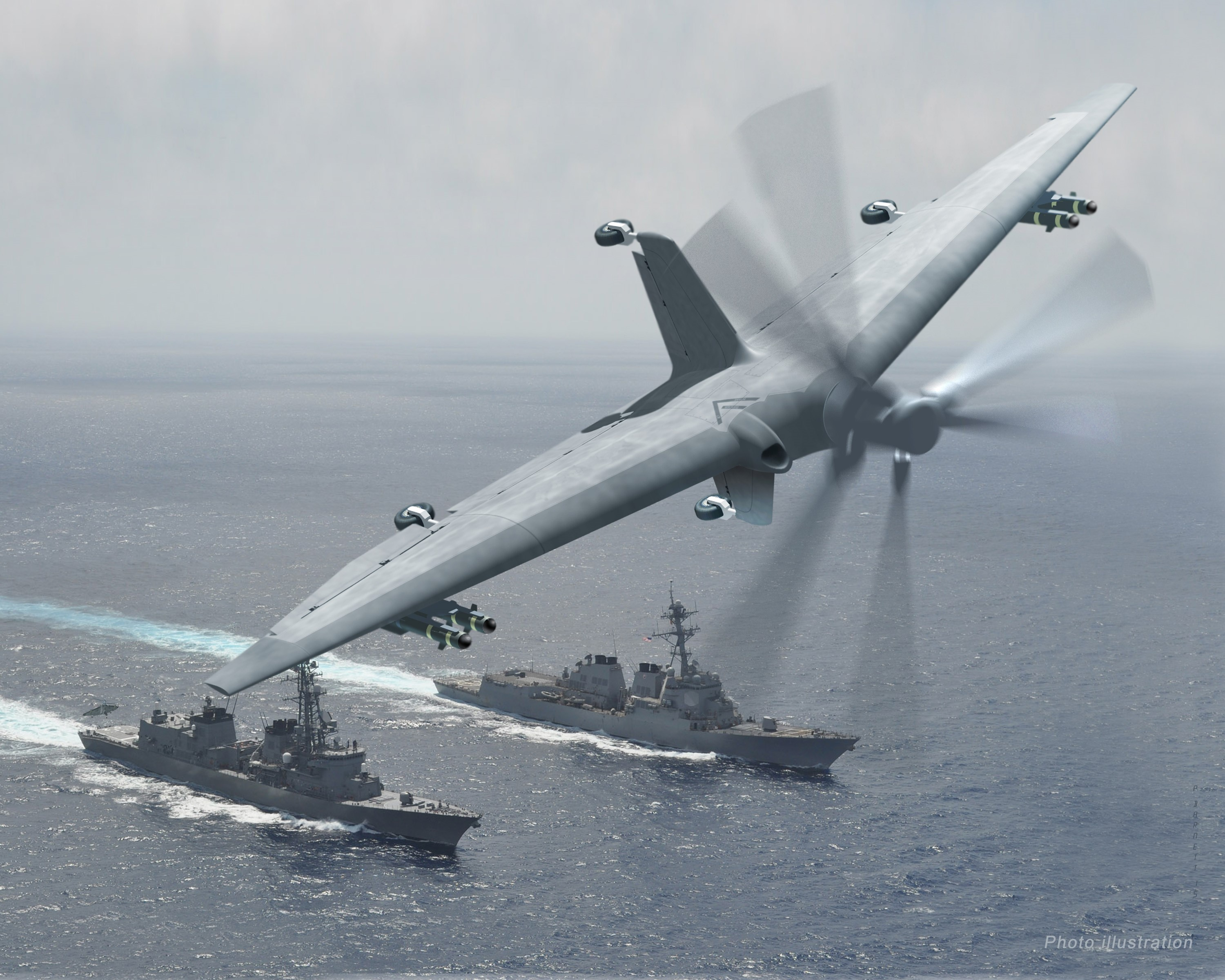 Artist conception of Tactically Exploited Reconnaissance Node drone